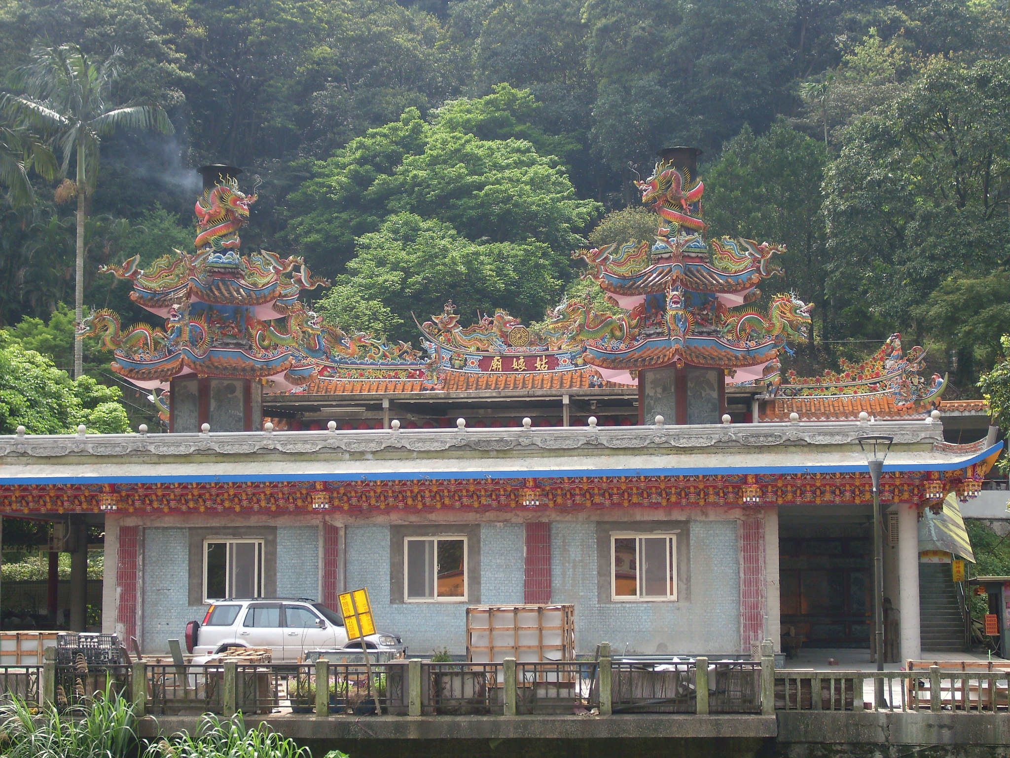 Shihding Guniang Temple, New Taipei City